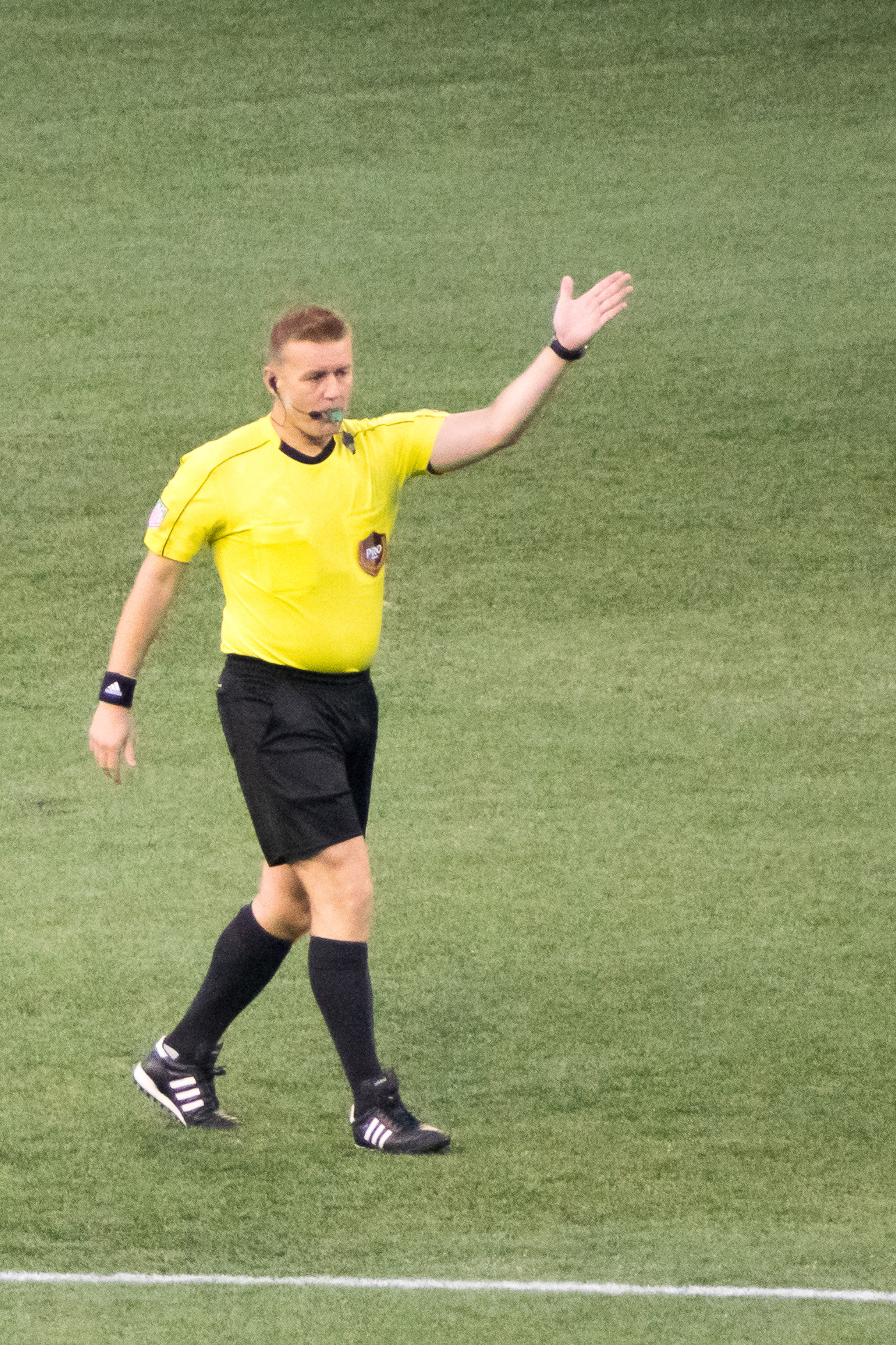 Alan Kelly (referee) during Seattle Sounders FC vs. San Jose Earthquakes on July 23, 2017